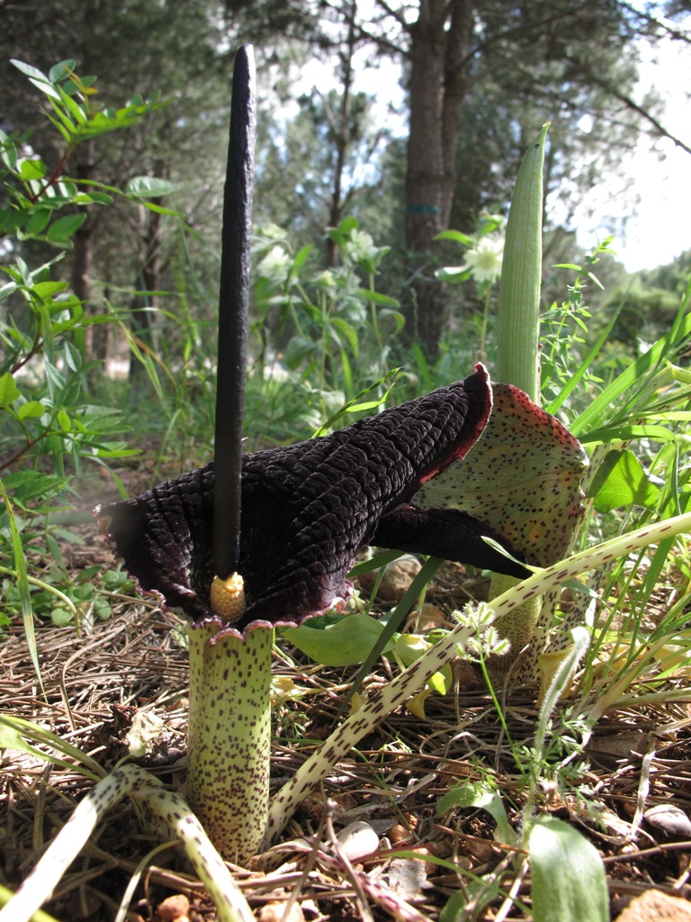 Eminium spiculatum